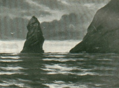 Photograph of "Stac Lii from the sea" (now generally called Stac Lee), taken by Norman Heathcote in 1899 and published in Heathcote, Norman (May 1901). "Climbing in St Kilda". Scottish Mountaineering Club Journal 6 (5): 147–152.